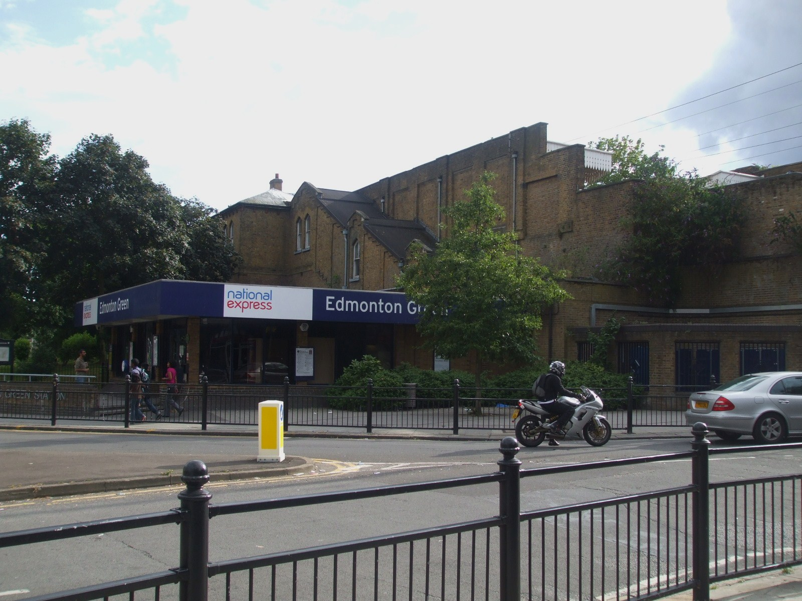 Edmonton Green railway station main entrance, on the London-bound side